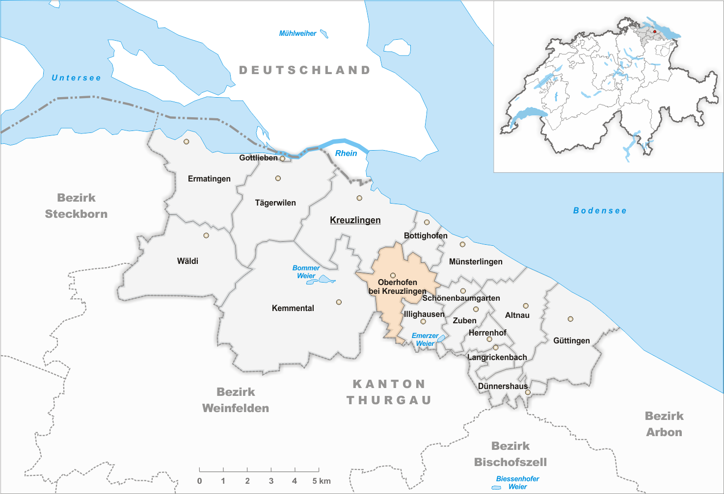 Municipality Oberhofen